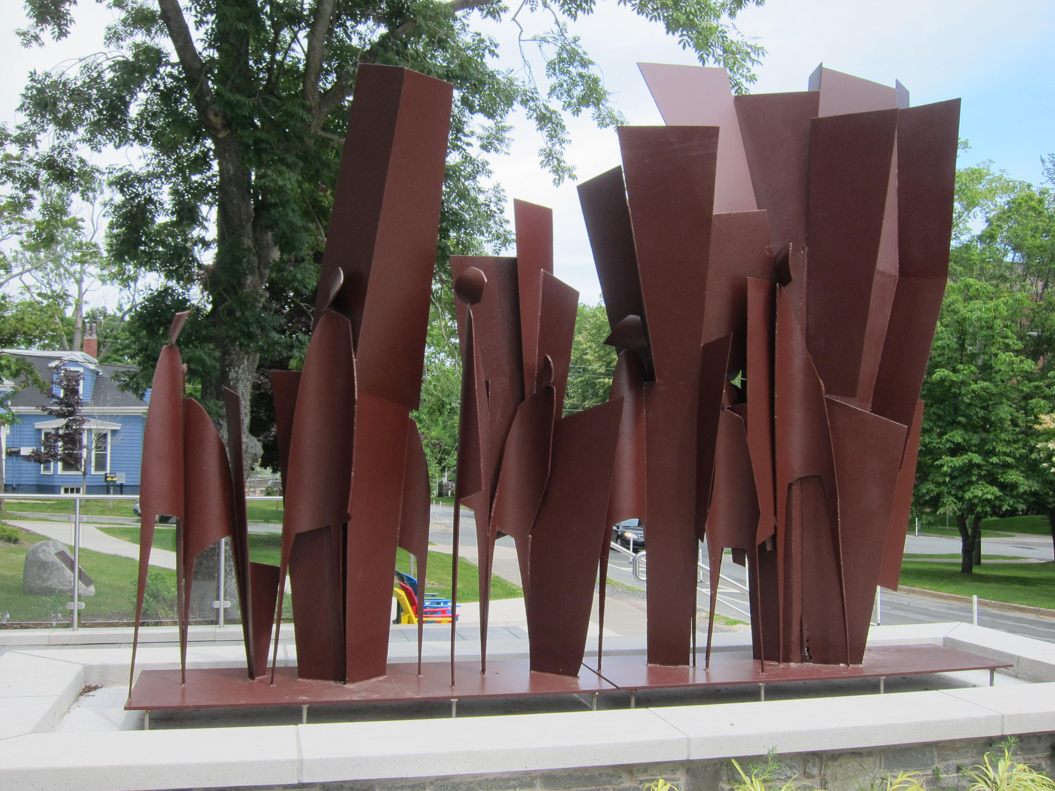 'Jury' 1968 by Gord Smith, R.C.A. in front of the Dalhousie Law School building in Halifax, Nova Scotia.